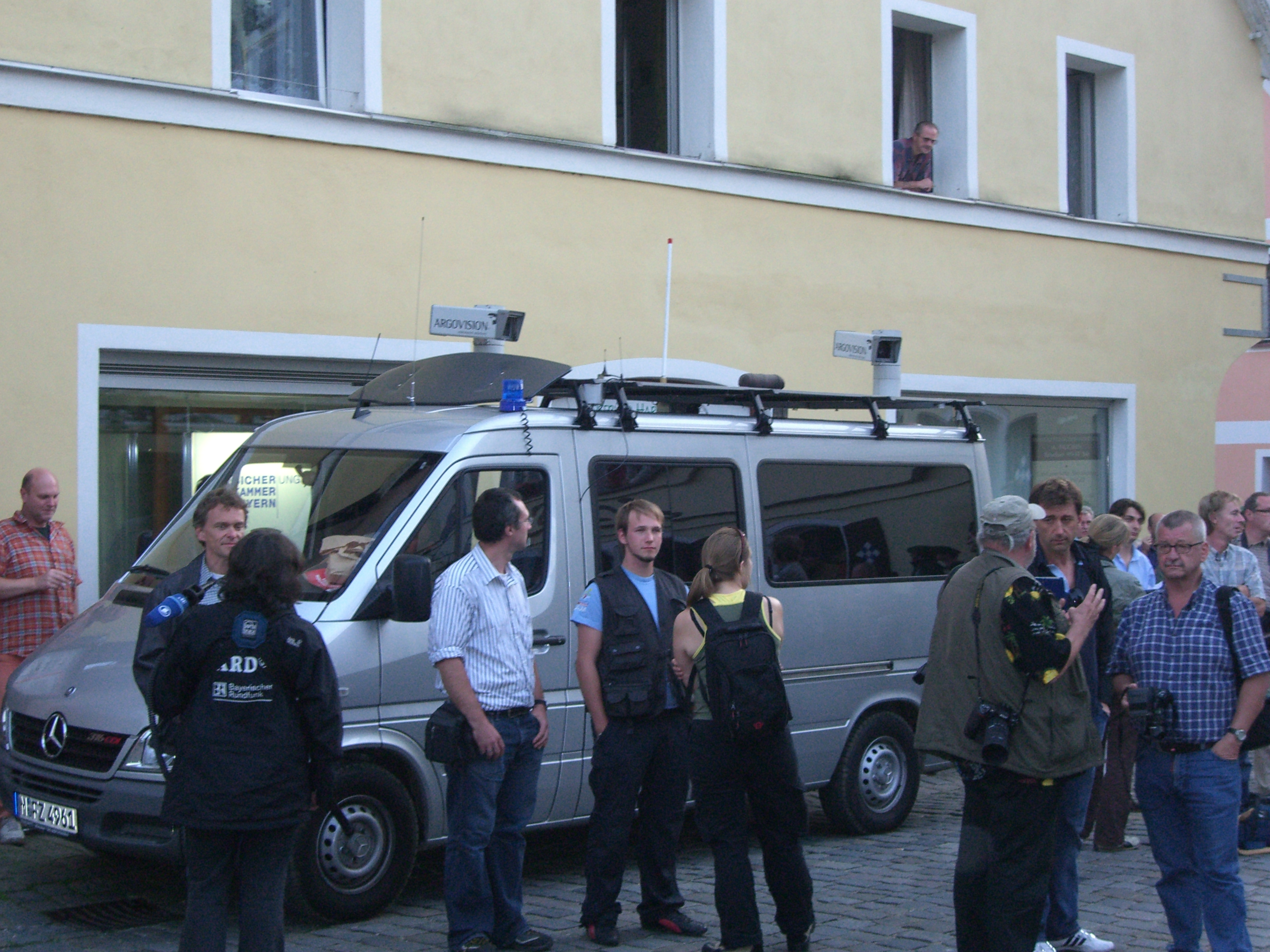 Mobile Closed-circuit television mounted on a police van (without any labeling as police car) in use at the the anti nazi demonstration "Gräfenberg ist bunt" (Gräfenberg is colorful) at the market place of Gräfenberg in Upper Franconia (Bavaria, Germany) on 18. August 2007.